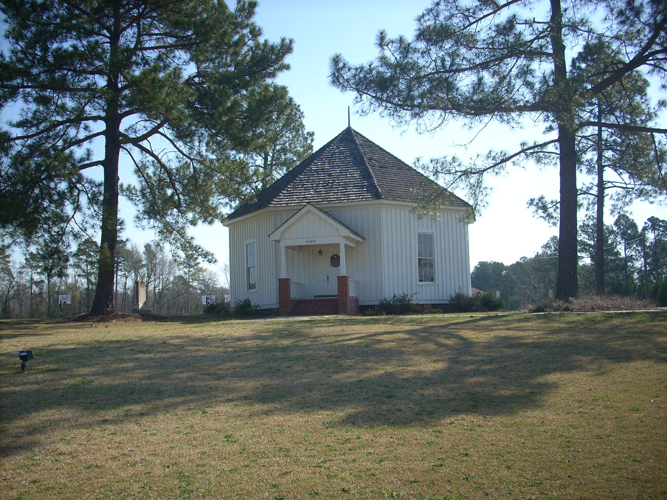 Octagon Tabernacle in Falcon, North Carolina. Just a step back. Behind the tabernacle lies a basketball court, sand volleyball pit and mini golf course. All are private. This place must be busy in the summer time.